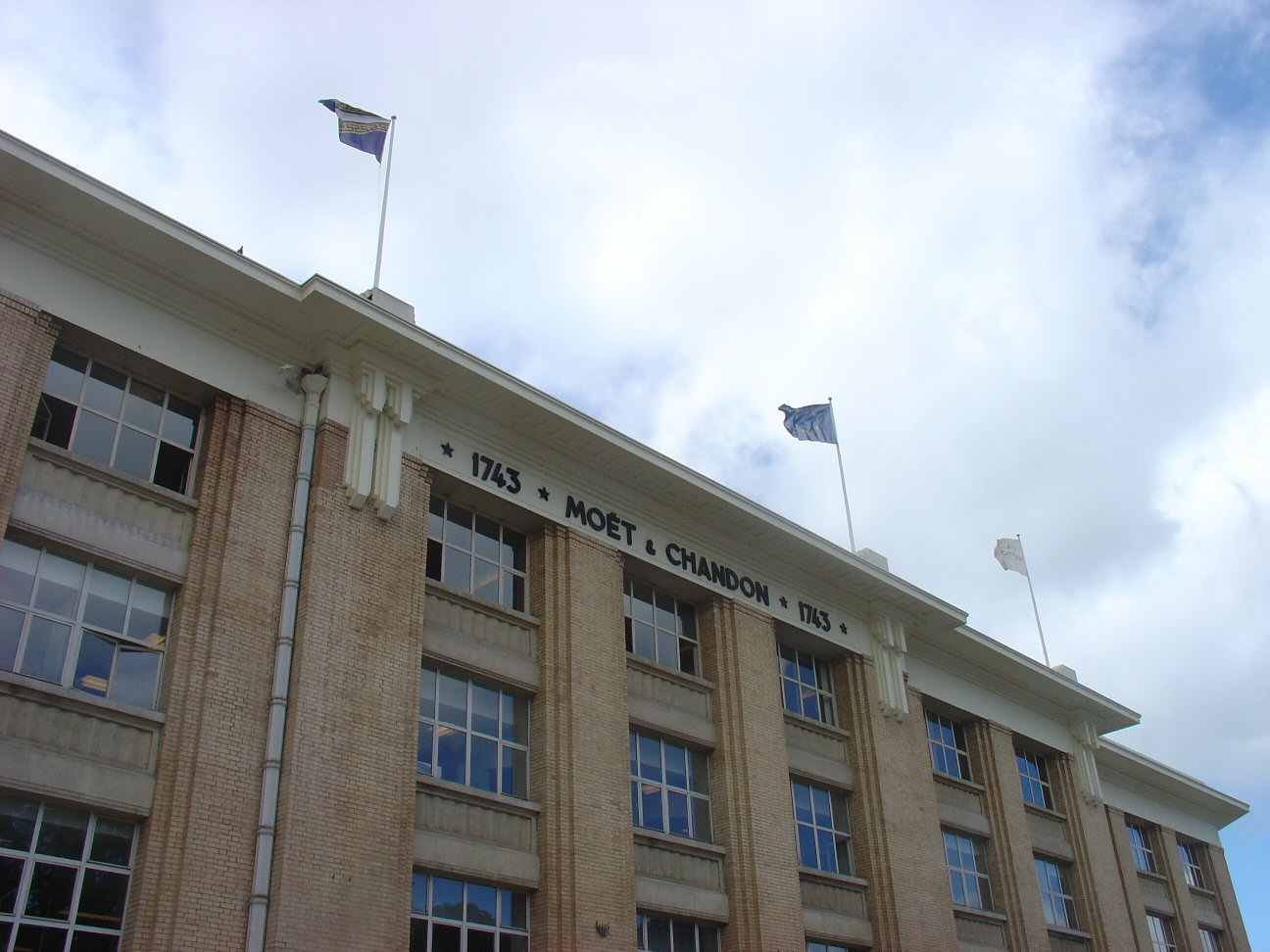 Headquarters of champagne house Moët et Chandon in Epernay, France